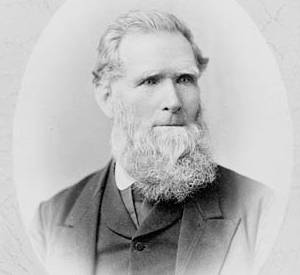 Abram Farewell, Member for S. Ontario, Ontario Legislative Assembly